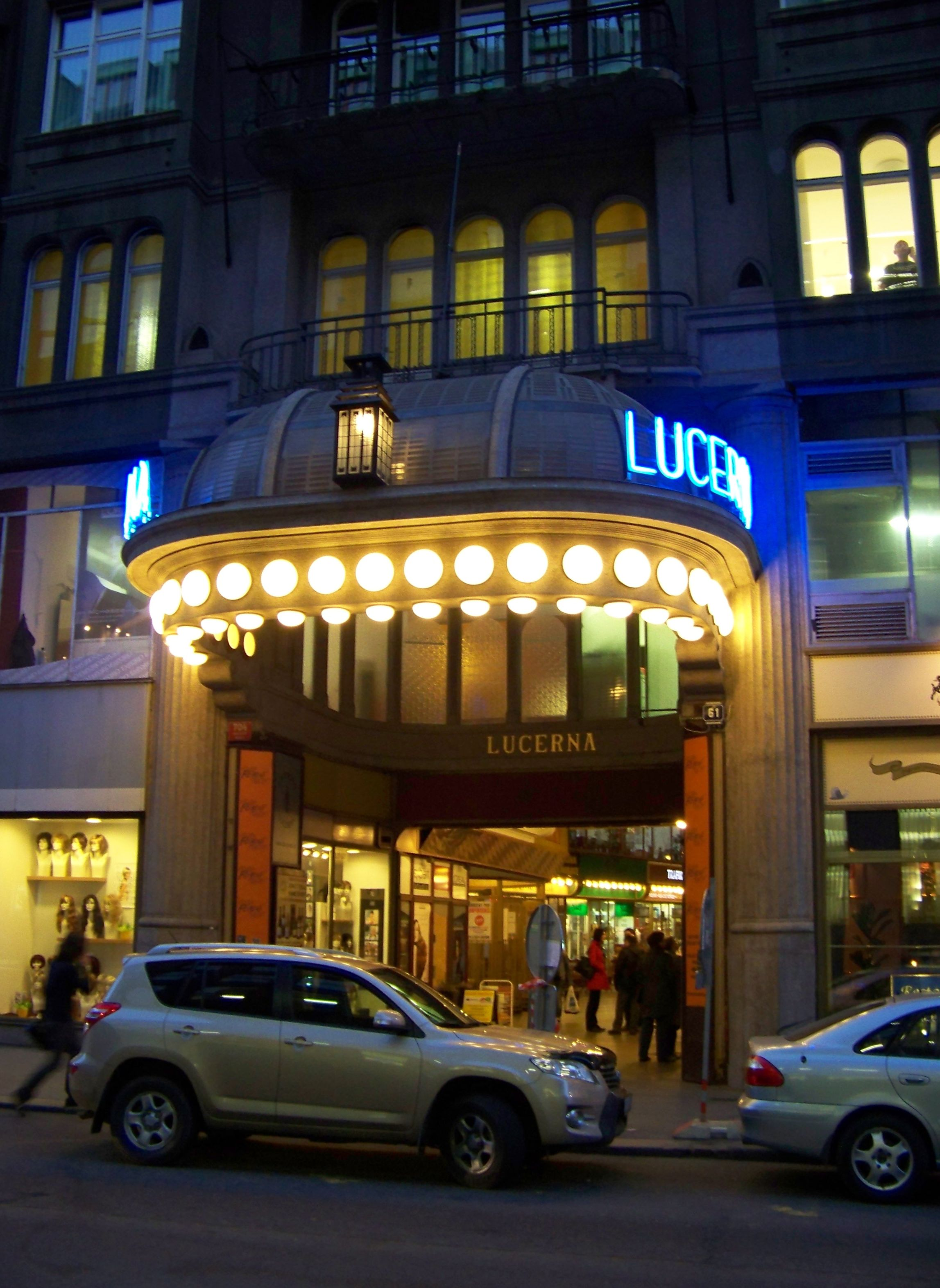 Prague-New Town, the Czech Republic. Štěpánská street, Lucerna Palace.